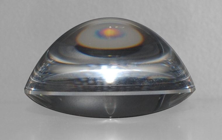 Visby lens, replica, Rodenstock (1989), shown at the Deutsches Museum. Edited using Bézier curve tool.